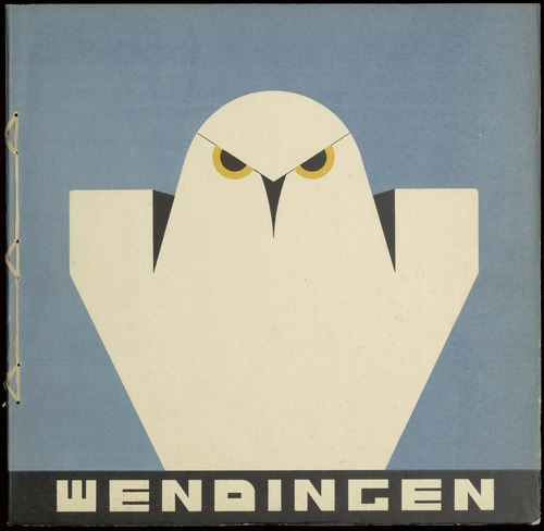 Front cover of Dutch art magazine Wendingen 1931-1. Design by Samuel Jessurun de Mesquita